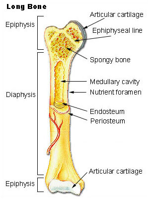 Bone